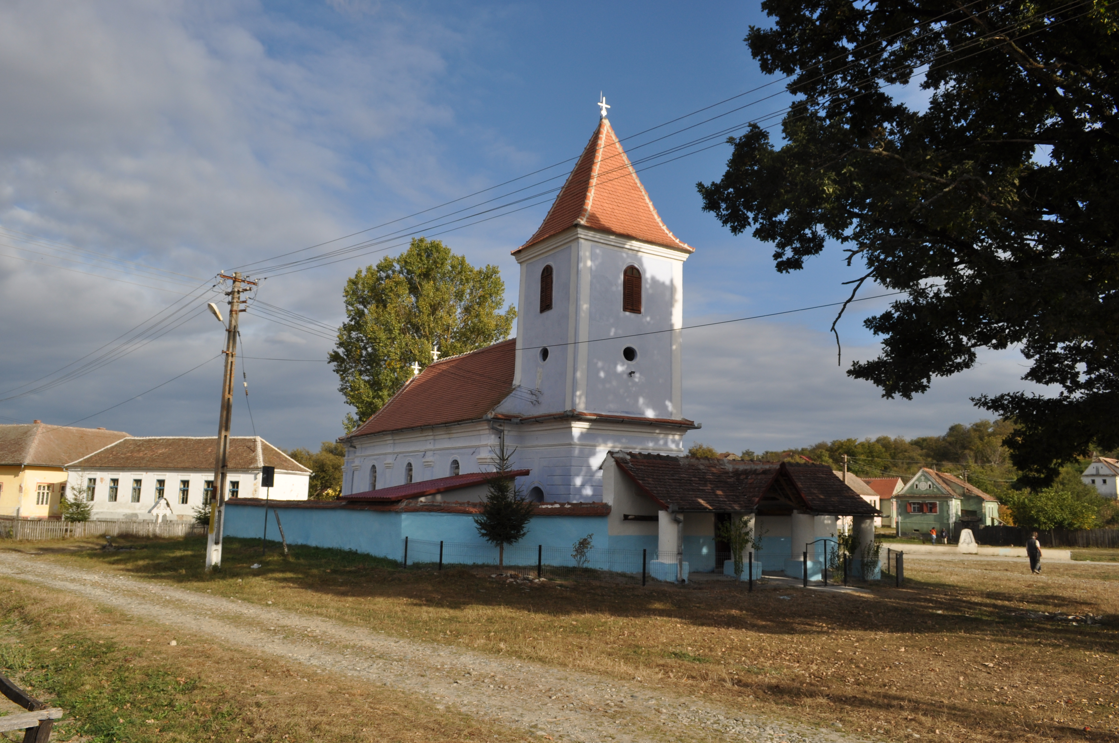 ”The Saint Pious Parascheva” church of Țichindeal, Sibiu county